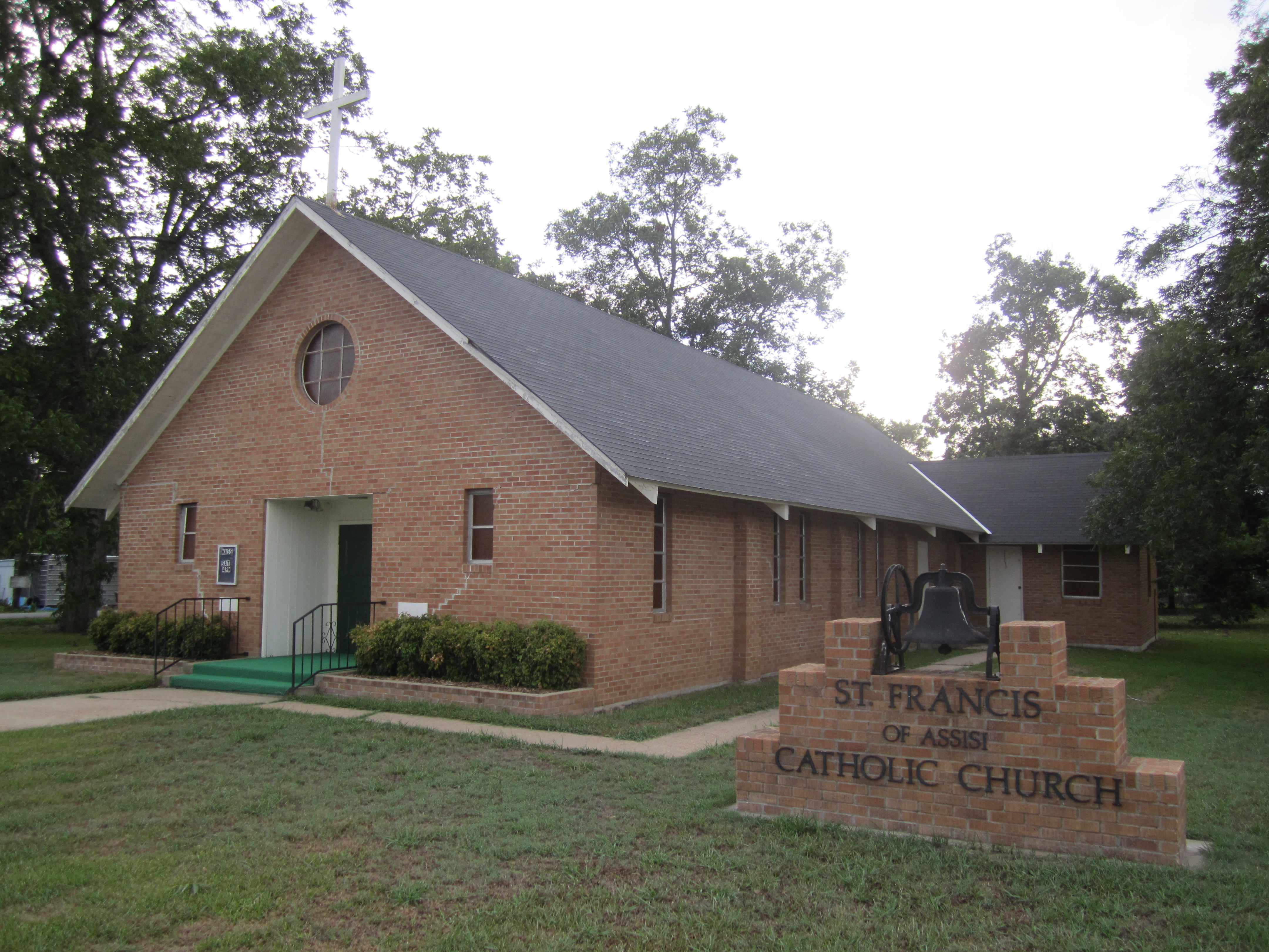 I took photo with Canon camera in Waterproof, LA.